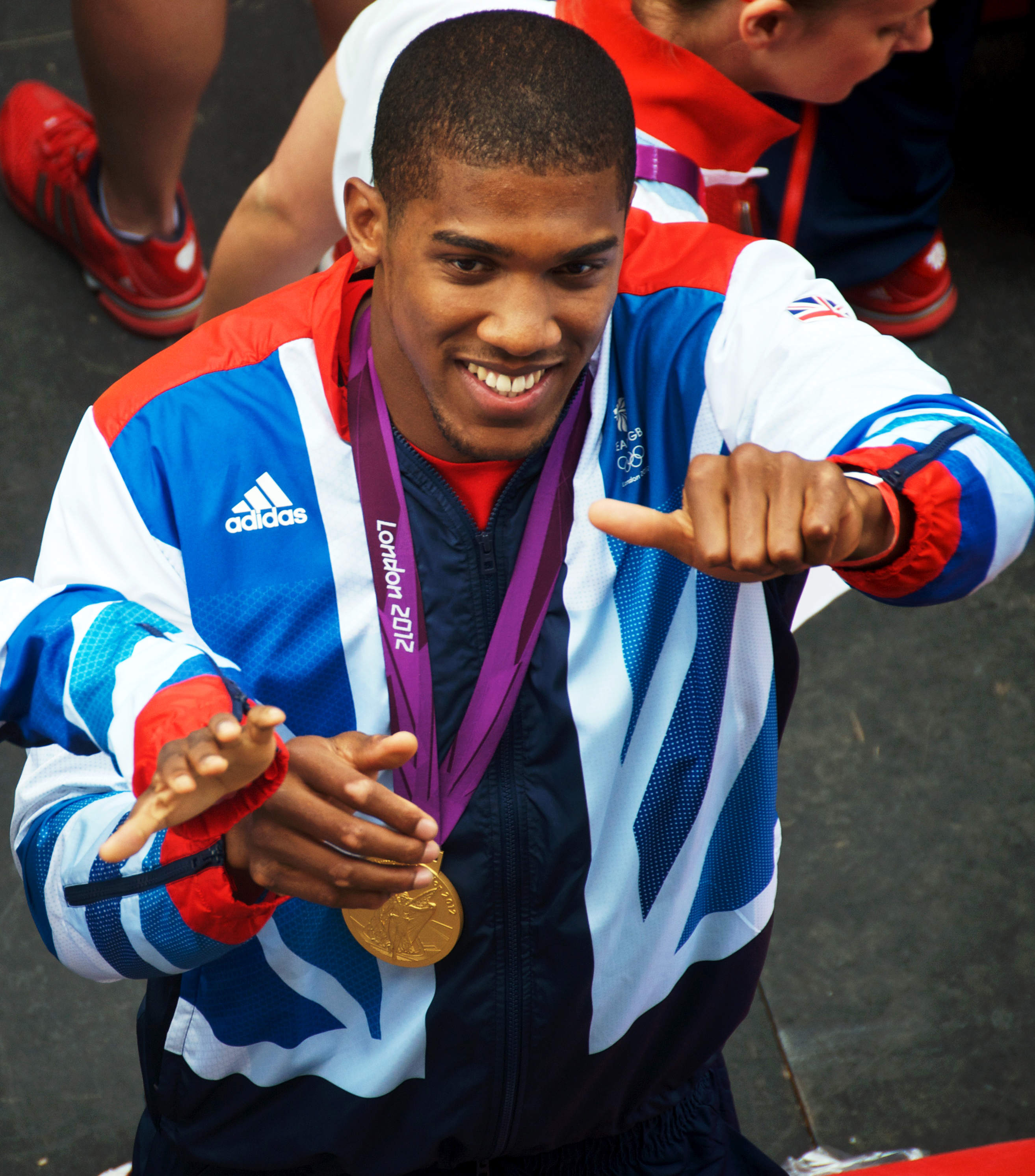 Anthony Joshua at the London 2012 Olympic & Paralympic Games Victory Parade on September 10, 2012.